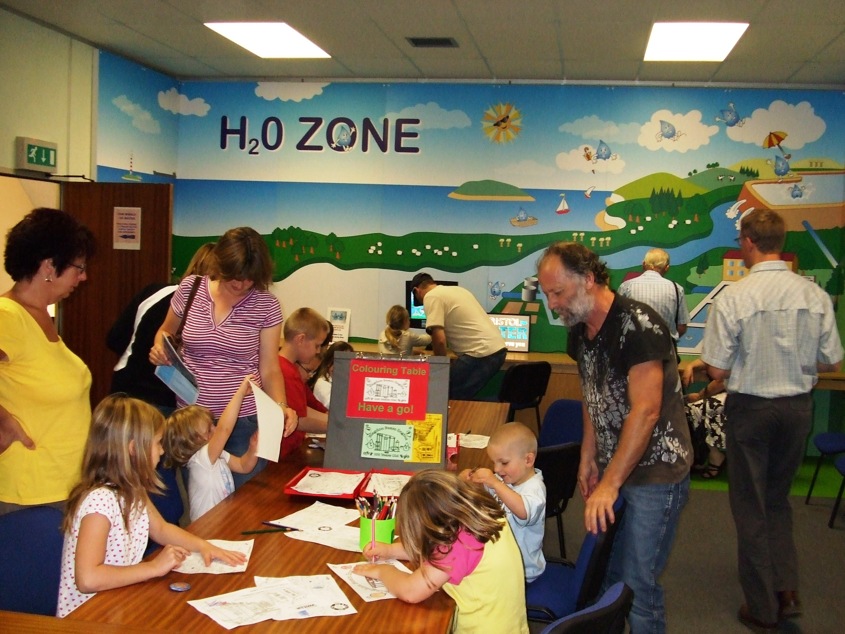 H20 education room